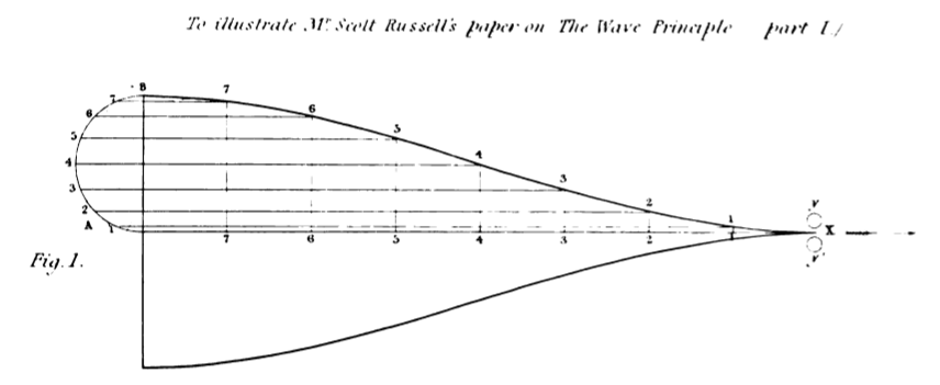 The concave shape of the bow of a ship advocated by John Scott Russell originally in 1838